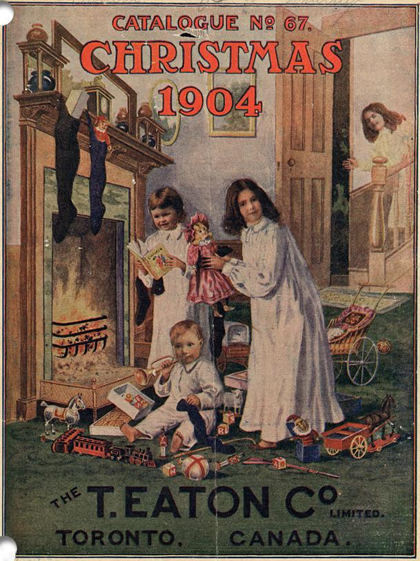 Eaton's Christmas Catalogue, 1904 cover